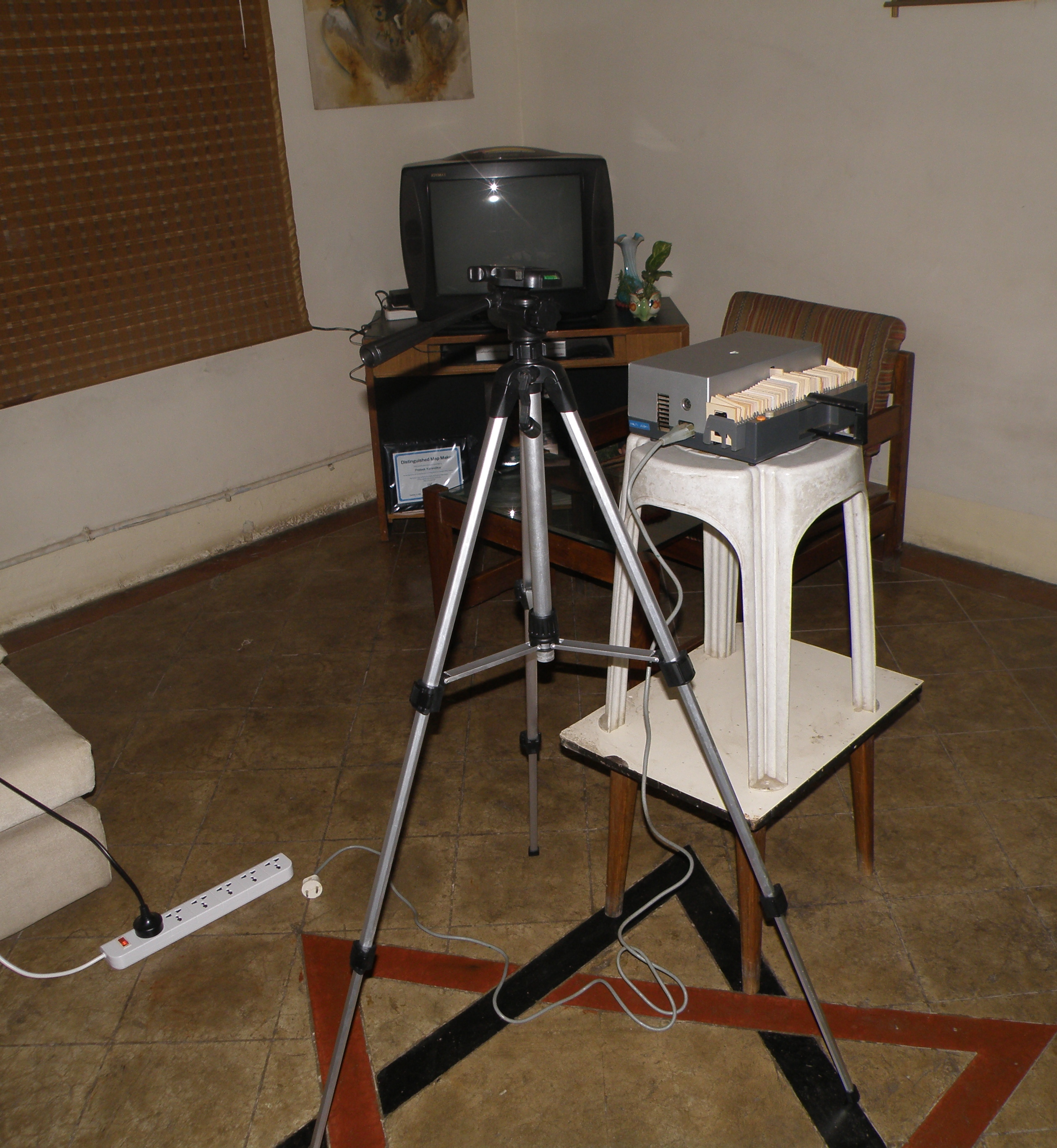 Digitizing old slides by photographing their projections